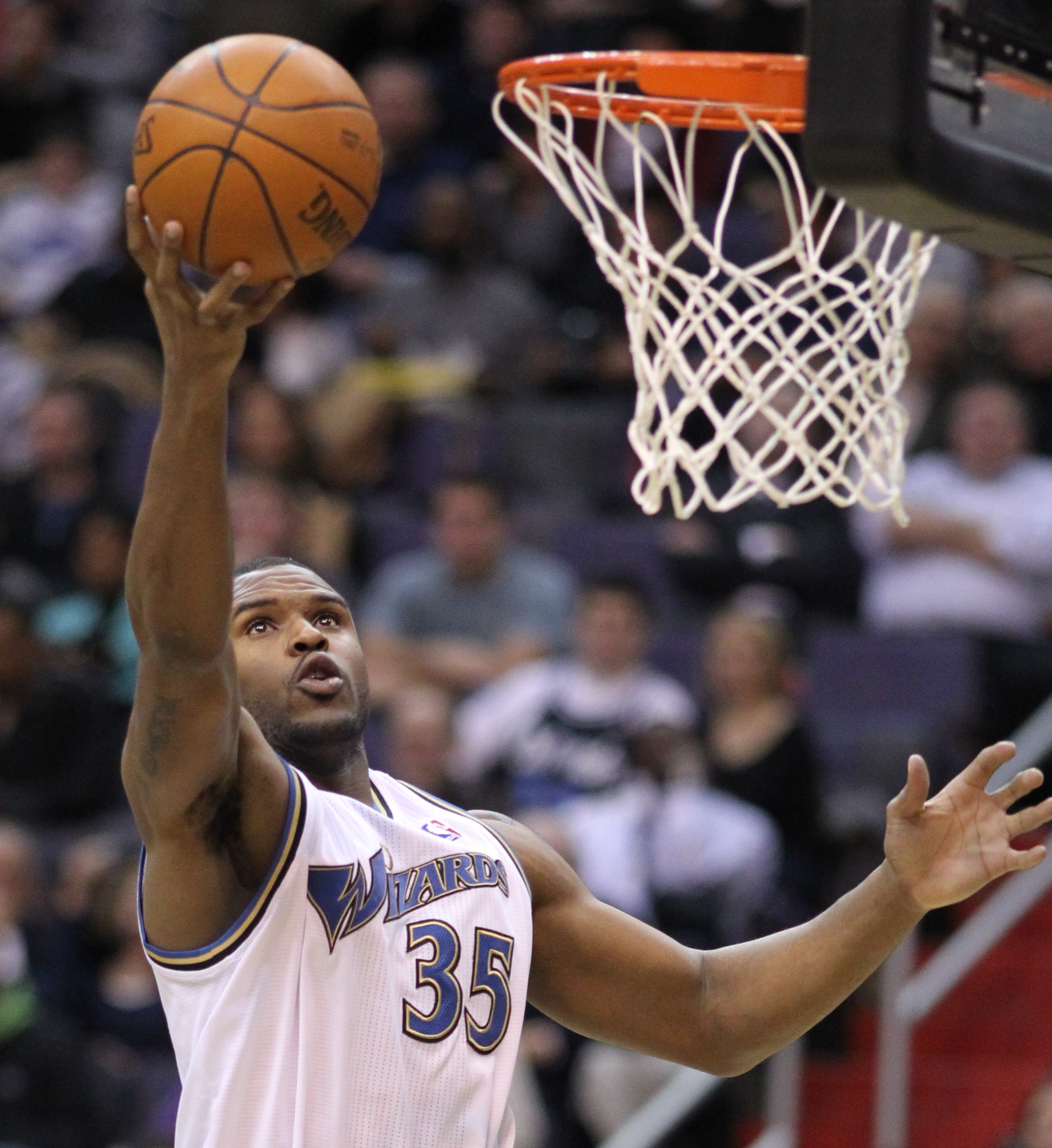 Trevor Booker goes for the layup in 2011.